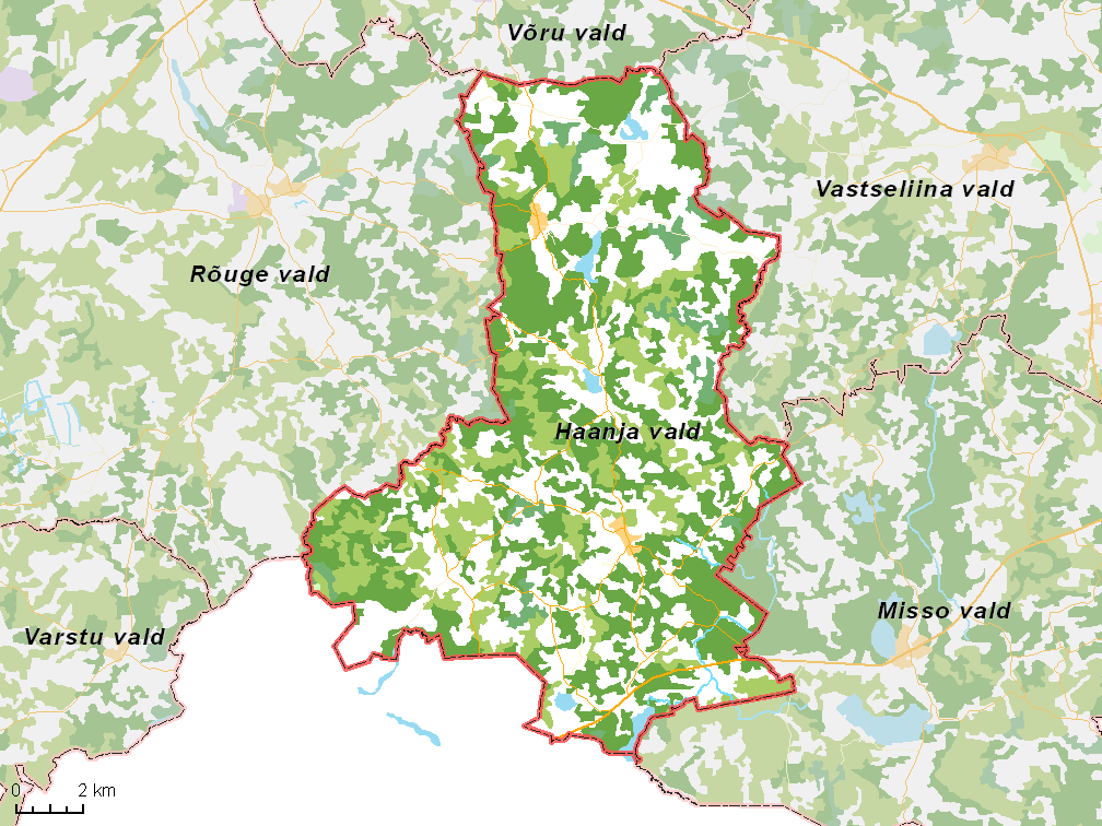 Map of municipality in Estonia